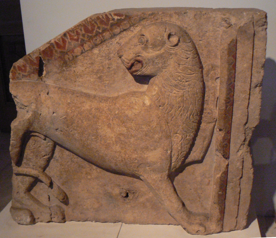 Stone relief of a lion with a polychrome decorations, 5-4 centtury BC. Cult complex Zhaba Mogila, Strelcha, Bulgaria. Exhibit of the National History Museum of Bulgaria